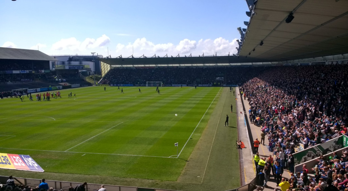 Home Park during Plymouth Argyle's final home game of the 2016-17 campaign.